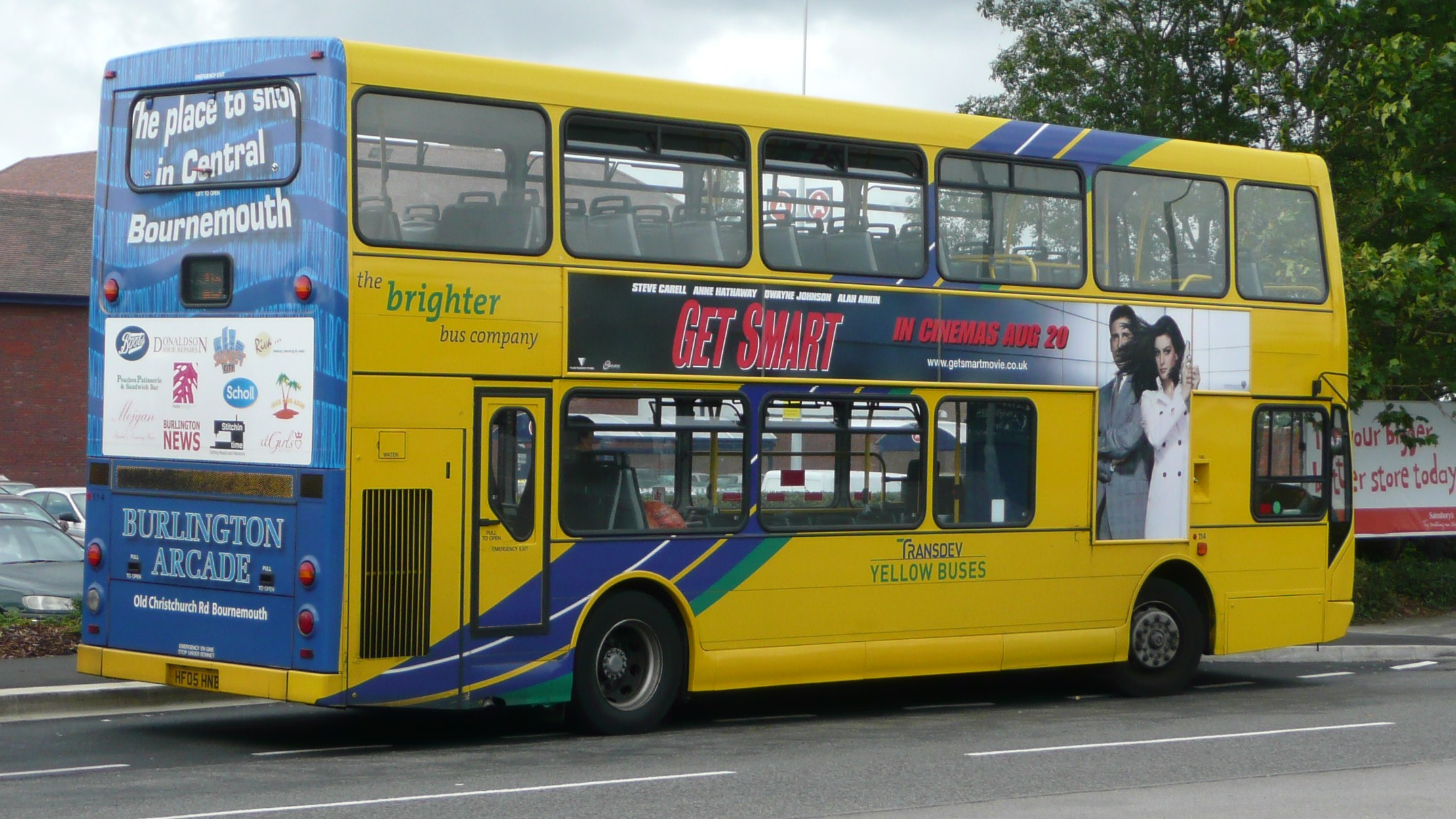 The rear of Transdev Yellow Buses 114 (HF05 HNB), a Volvo B7TL/East Lancs Myllennium Vyking, at Somerford Sainsbury's, Christchurch, laying over between duties on route 1b.